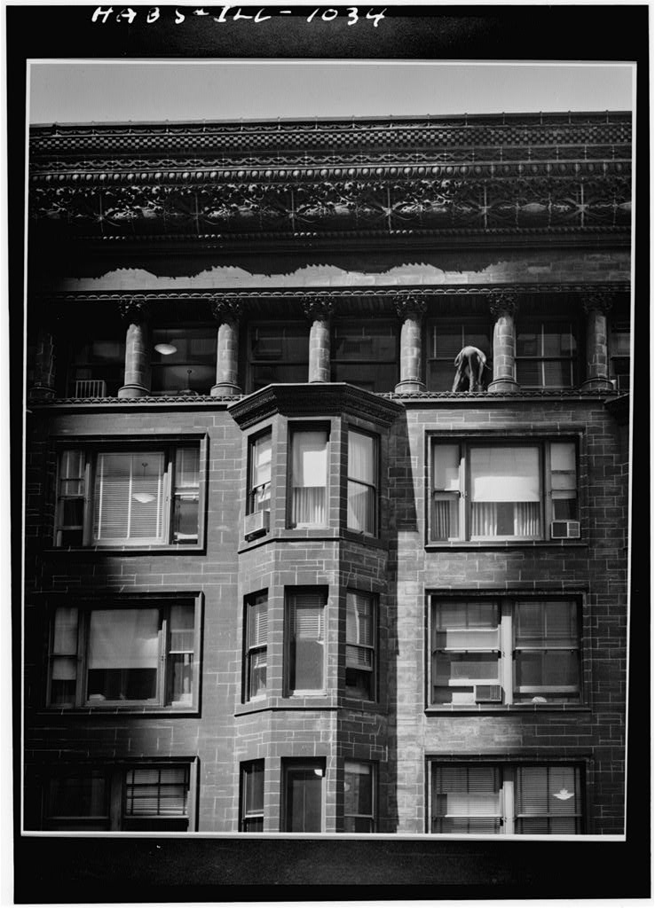 2. Historic American Buildings Survey Cervin Robinson, Photographer August 1963 DETAIL, TOP FLOORS AND CORNICE - Chicago Stock Exchange Building, 30 North LaSalle Street, Chicago, Cook County, IL